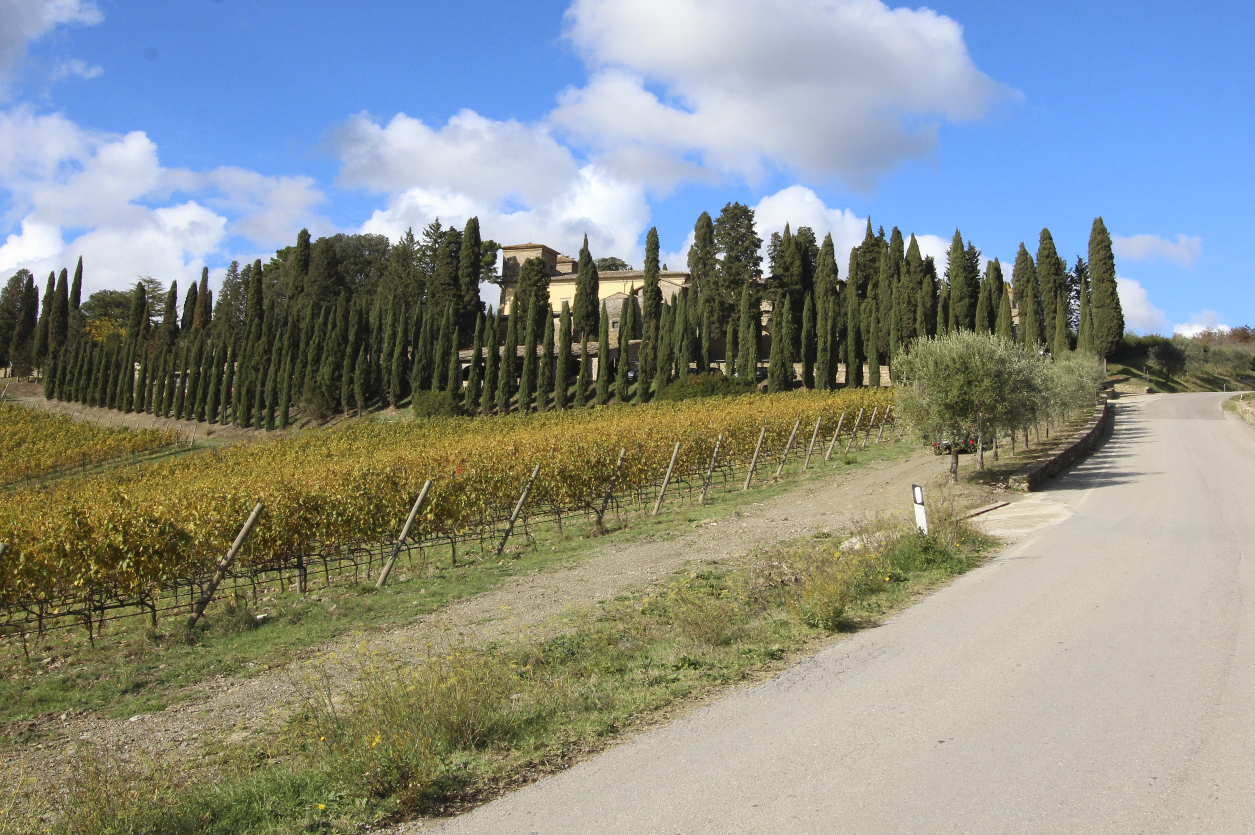 Villa di Albola, Albola, village of Radda in Chianti, Province of Siena, Tuscany, Italy